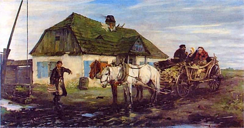 Jews in front of a village inn